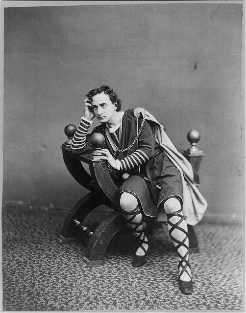 American actor Edwin Booth as Hamlet